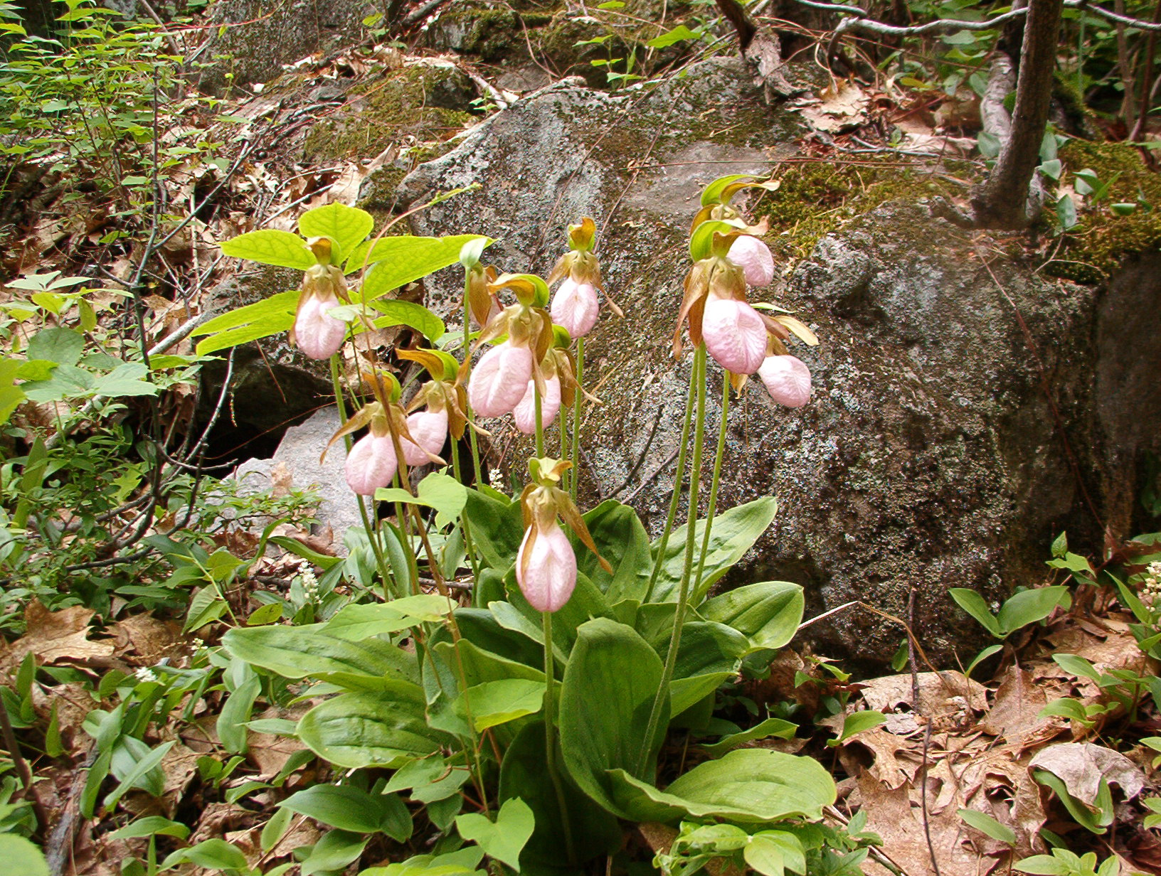 Cypripedium acaule taken in the spring near Québec city in the province of Québec Canada